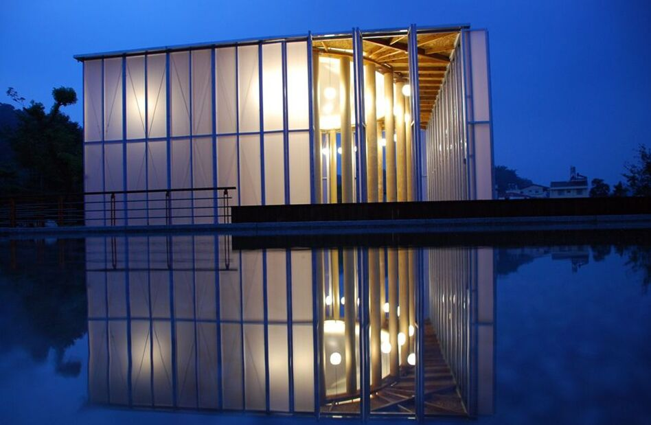 Night Scene at Paper Dome